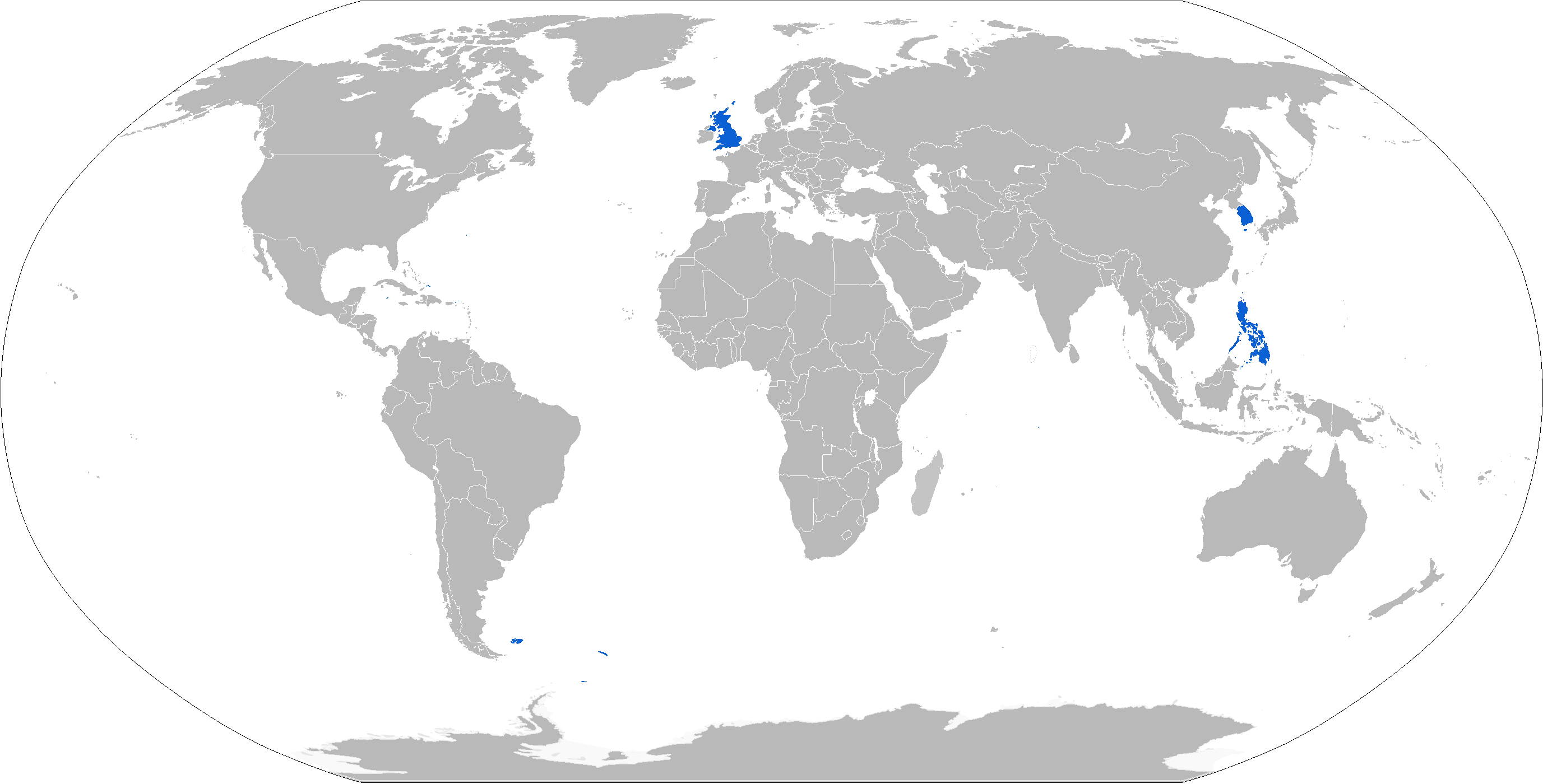 Map with military AugustaWestland AW159 operators in blue